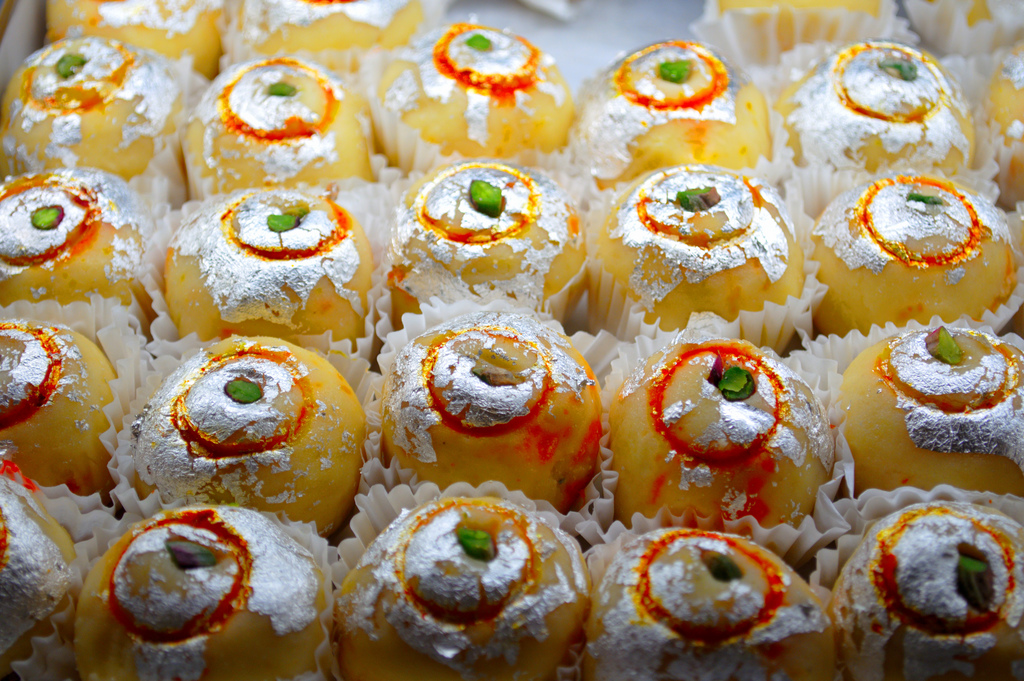 Indian sweets garnished with "Vark" (silver foil), served in a restaurant in Brampton, Ontario, Canada.